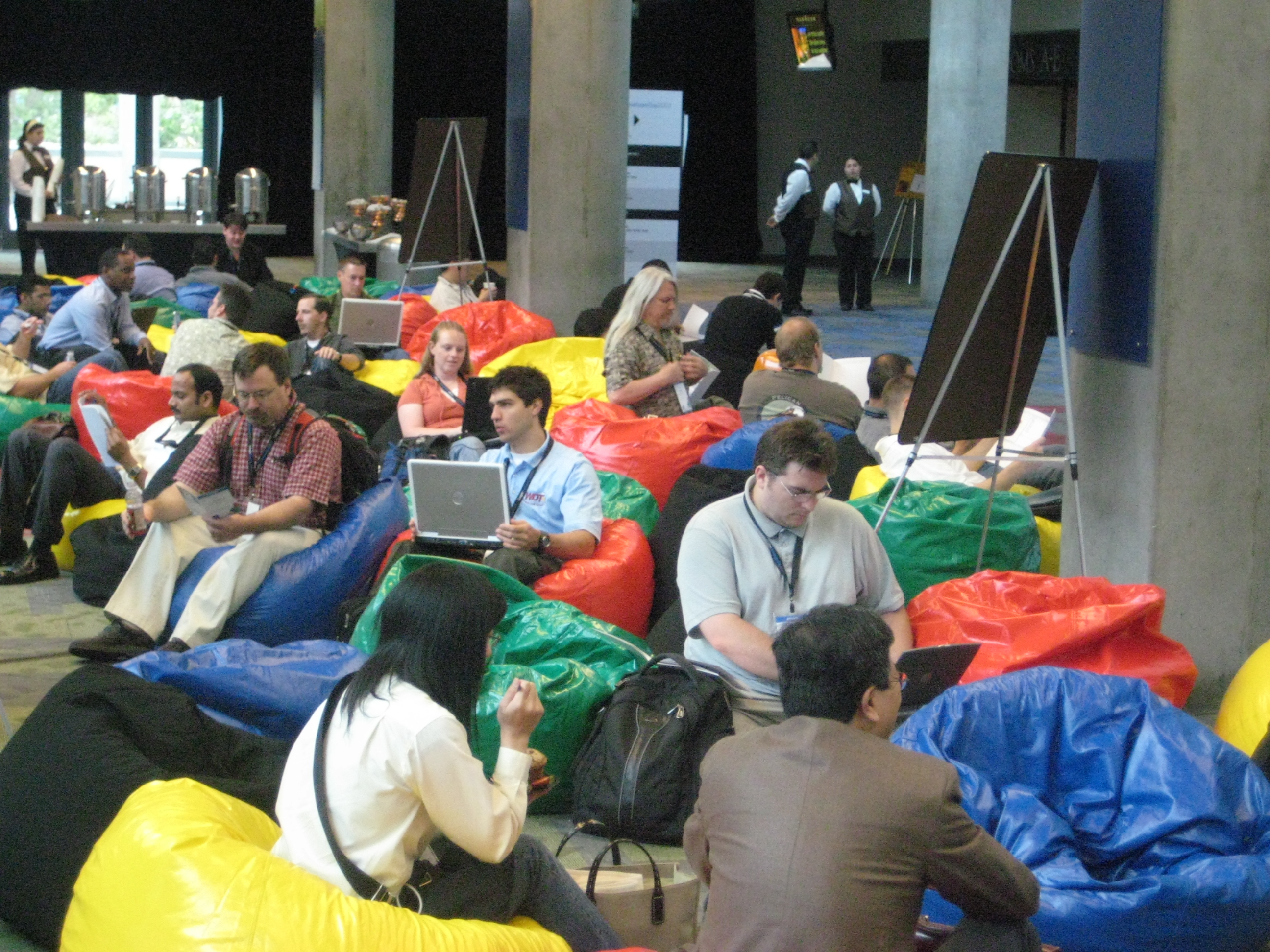 Bean bags at Google Developer Day 2007.